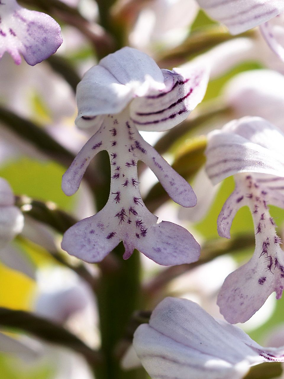 Orchis militaris